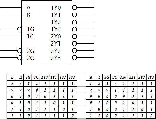 Decoder_type_74155